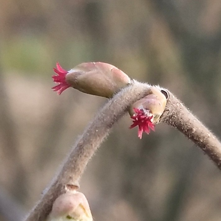 Female flower of hazel